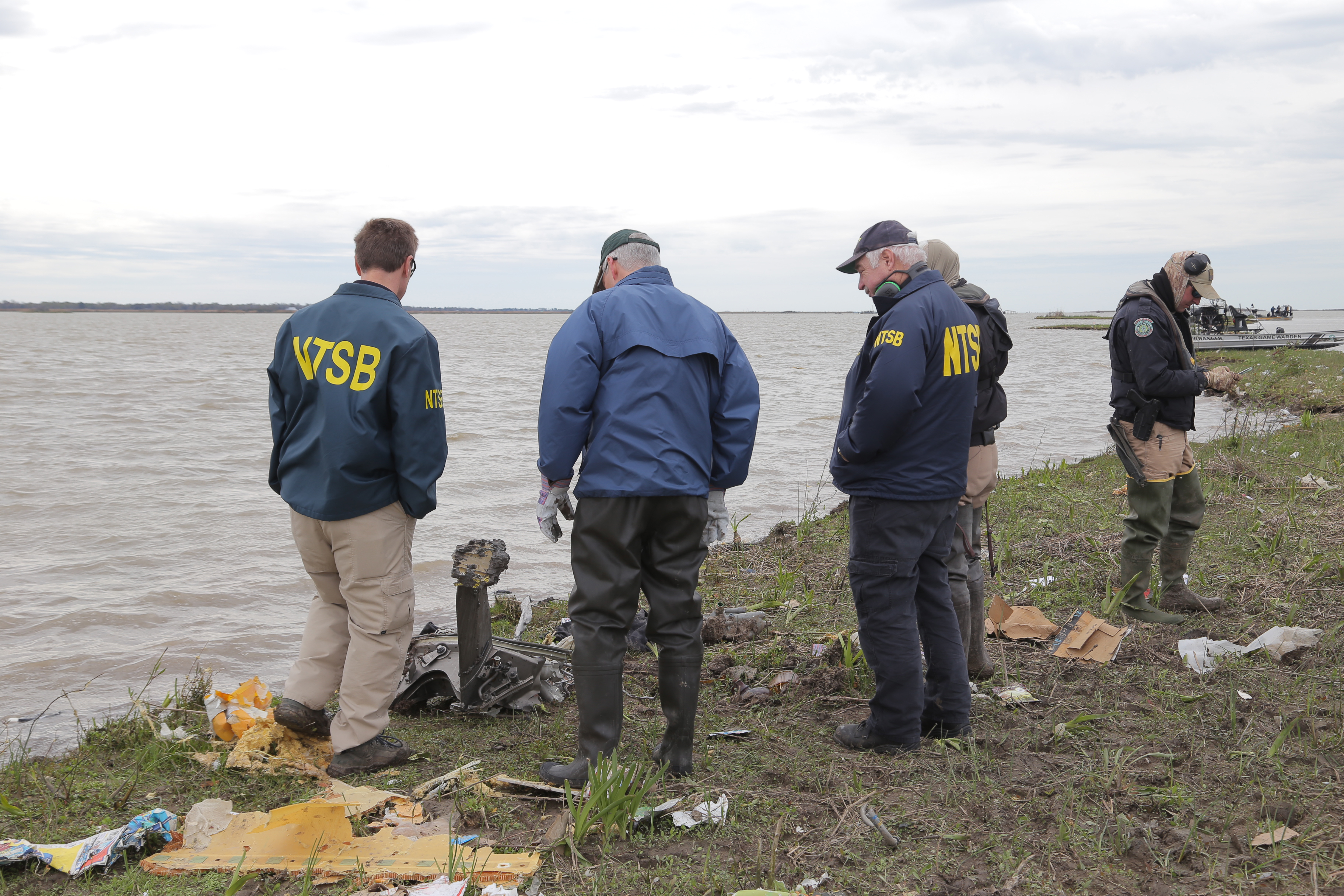 In this photo, NTSB investigators on shoreline of Trinity Bay examining wreckage from the Feb. 23, 2019 cargo jet crash in Texas. (NTSB Photo)